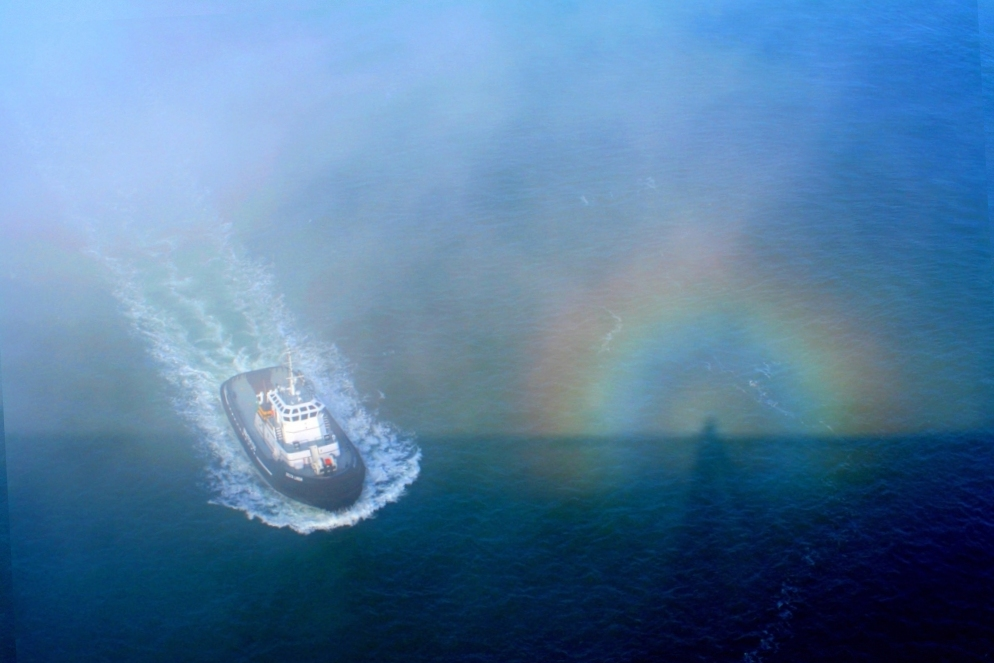 A solar glory and Brocken spectre from the Golden Gate Bridge.